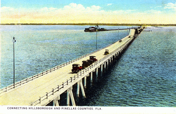 West end of Gandy Bridge crossing Tampa Bay.